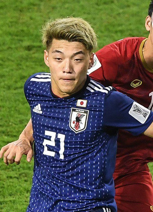 Ritsu Doan